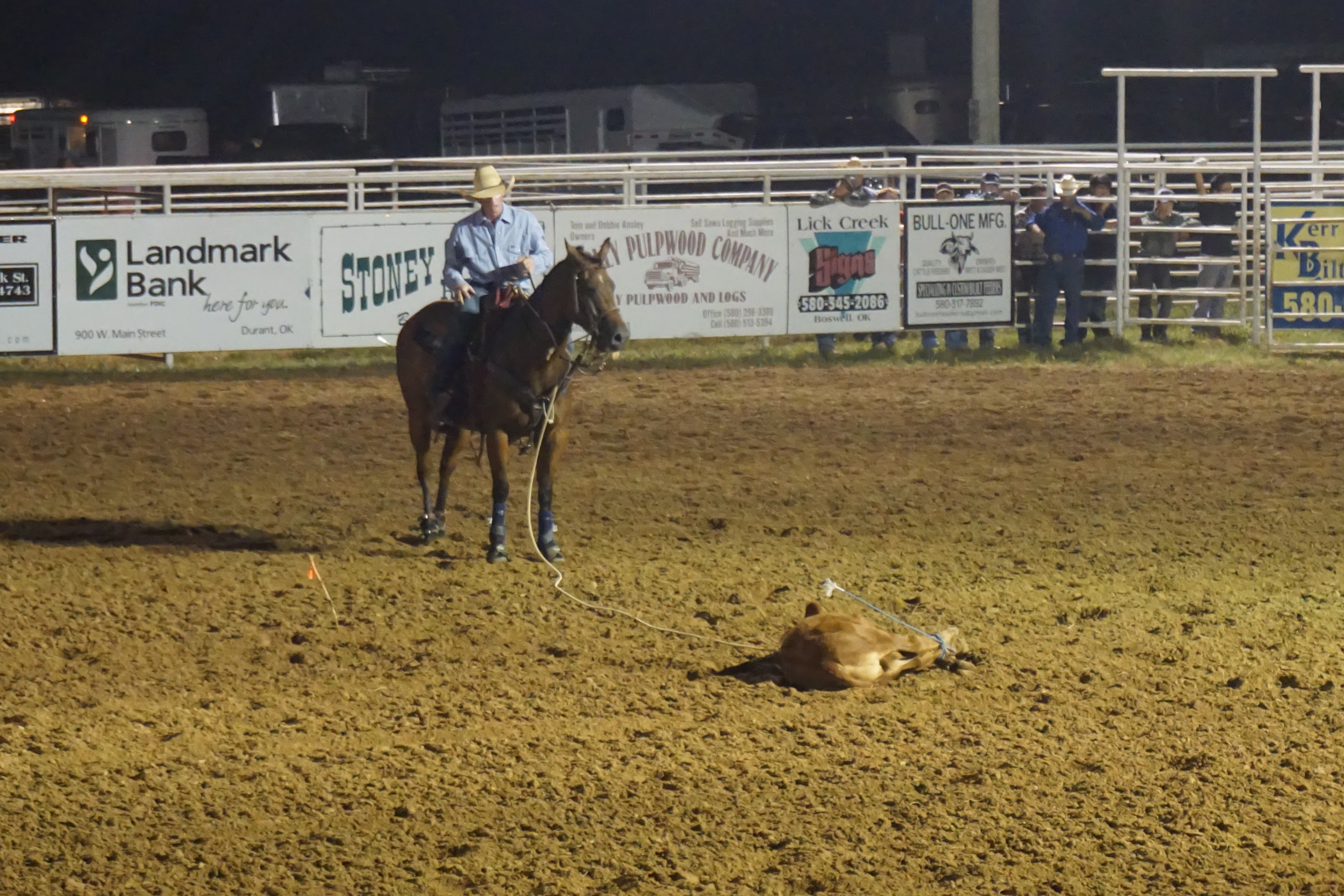 Goat tying at the 2018 Boswell FFA Rodeo in Boswell, Oklahoma (United States).